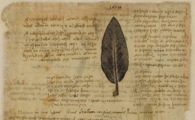 Nature printing of a leaf of Salvia, with text in mirror writing, in Leonardo da Vinci, Codex Atlanticus, chapter IX, f. 616, between 1478 and 1519